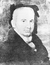 Senator John Milledge of Georgia